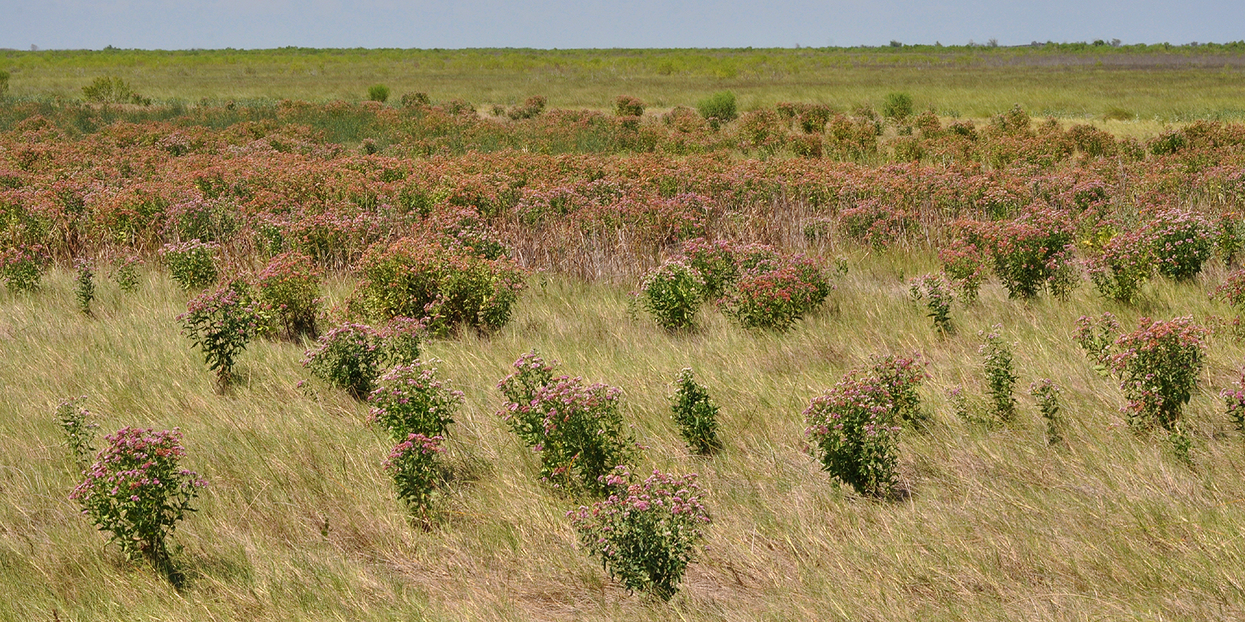 Saltmarsh fleabane (Pluchea odorata) growing in grassland at Brazoria National Wildlife Refuge showing Gulf coastal grassland and prairie habitat. Brazoria County, Texas, USA (29.0685°N, 95.2535°W, 2 m. elev.). Photographed on 24 August 2013. William L. Farr